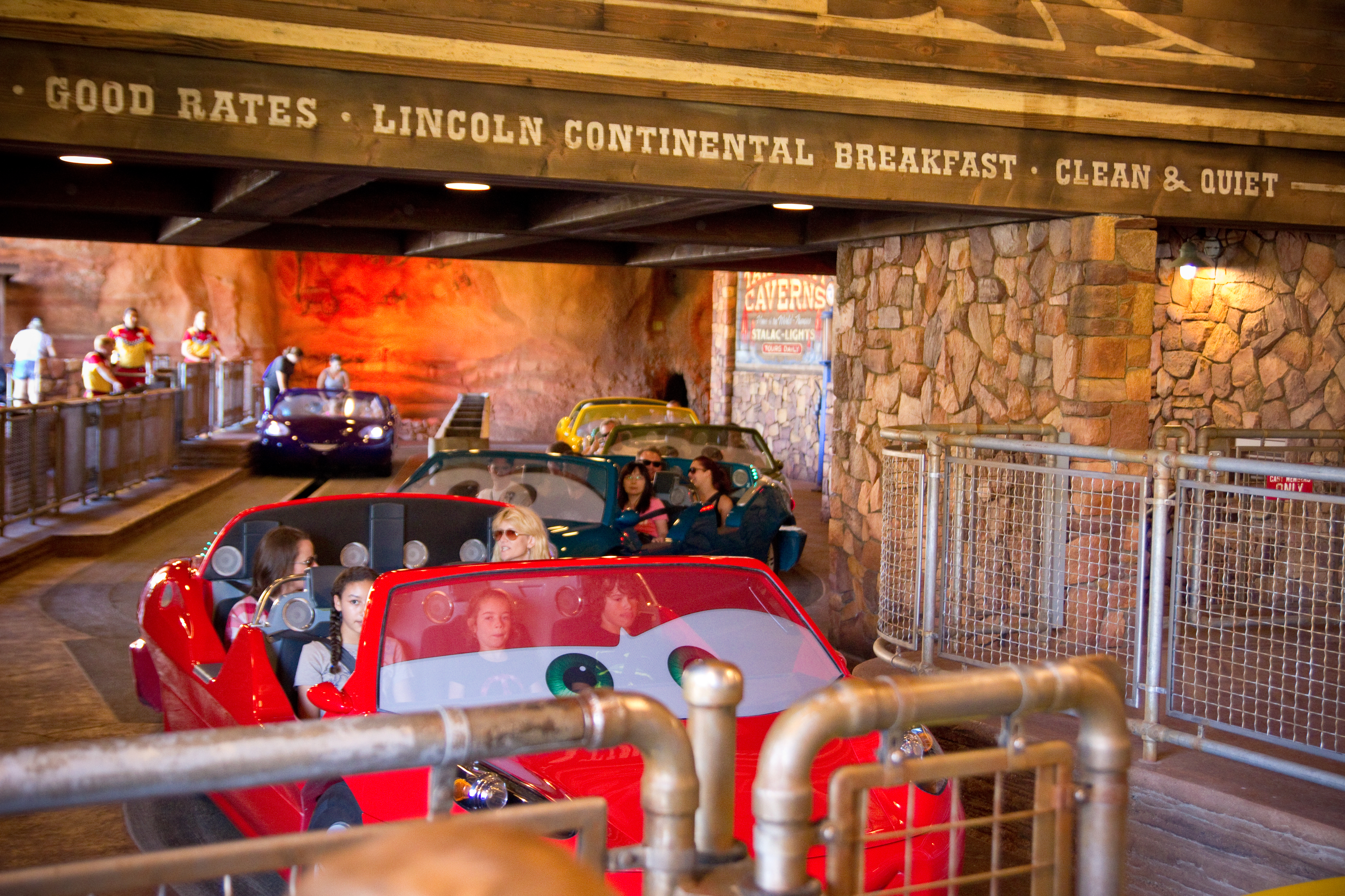 Some of the sights seen while waiting to ride Radiator Springs Racers in Cars Land at Disney California Adventure